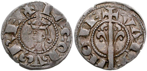 Spain, Cataluña. Valencia. Jaume el Conqueridor (el Conquistador), King of Aragon. 1238-1276. BI Dinero (17mm, 0.91 gm, 6h). Valencia mint IACOBVS•REX, crowned head left VALE-NCIE, Tree surmounted by cross pattée. ME 1870; Burgos 1328; cf. Heiss 1. VF, toned.